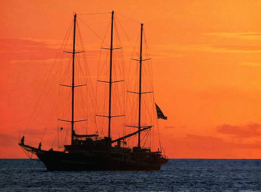 Capitán Miranda, the flag ship of the Uruguayan Navy